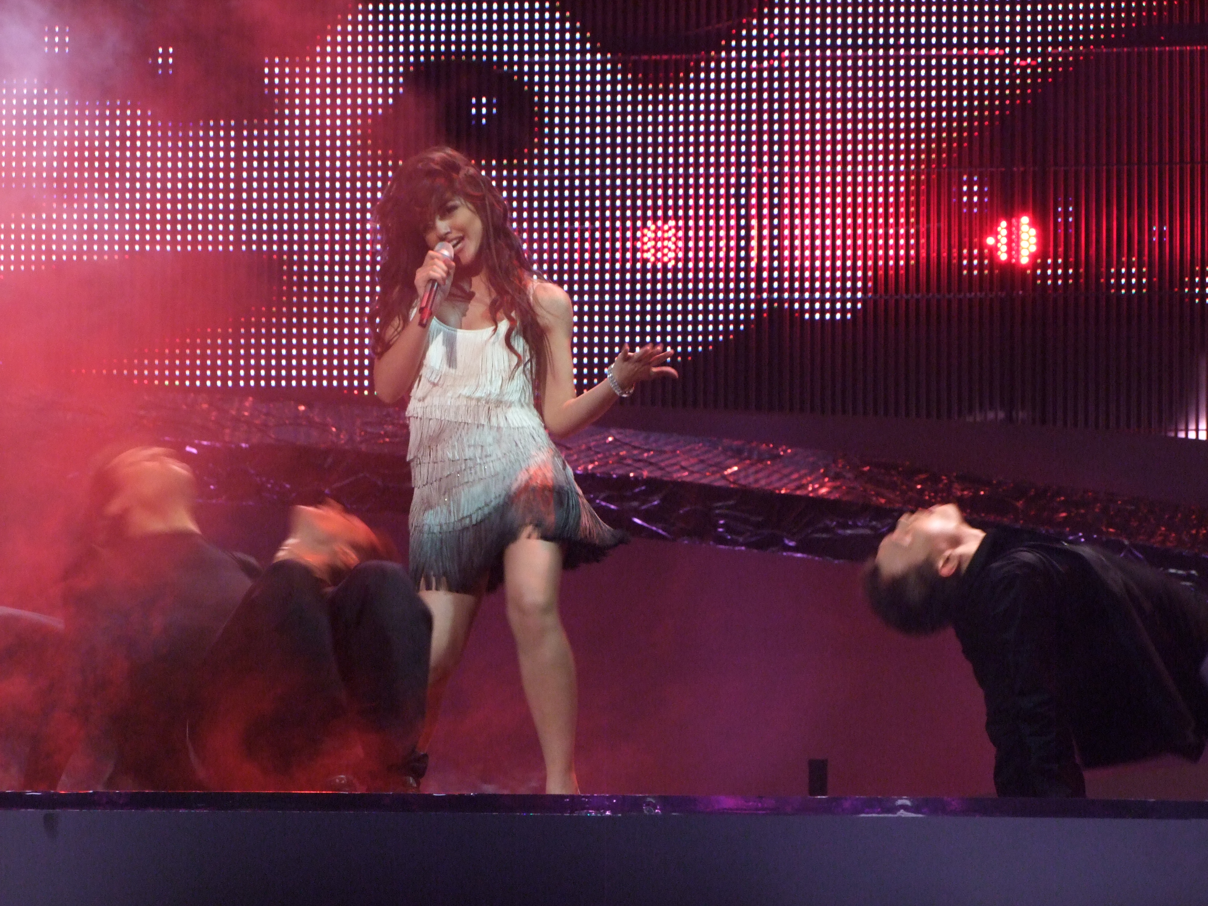 Sirusho, representative of Armenia in Eurovision Song Contest 2008. Taken in Belgrade, 2008. Personality rights warningAlthough this work is freely licensed or in the public domain, the person(s) shown may have rights that legally restrict certain re-uses unless those depicted consent to such uses. In these cases, a model release or other evidence of consent could protect you from infringement claims.